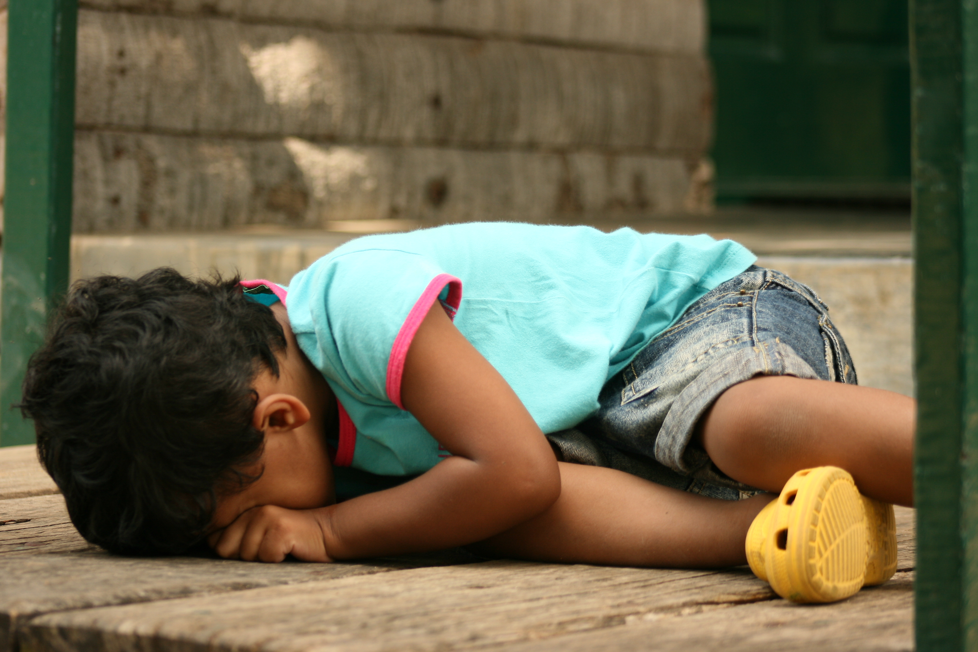 Tantrum